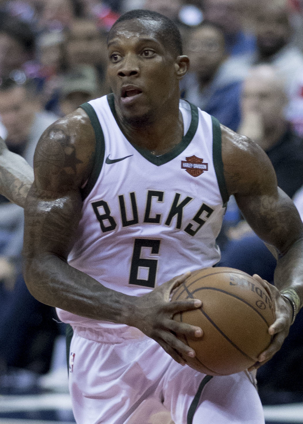 Eric Bledsoe of the Milwaukee Bucks during the game against the Washington Wizards on January 15, 2018 at Capital One Arena in Washington, DC.